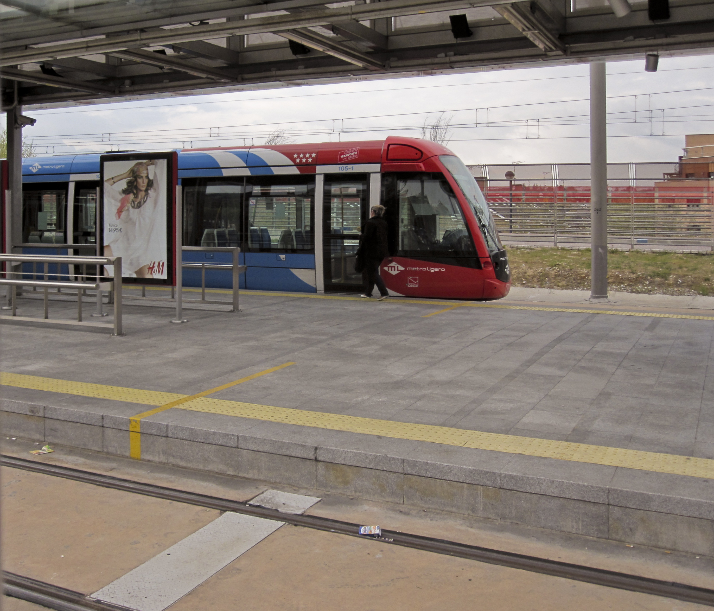 Metro Ligero station in Aravaca, Madrid, Spain.